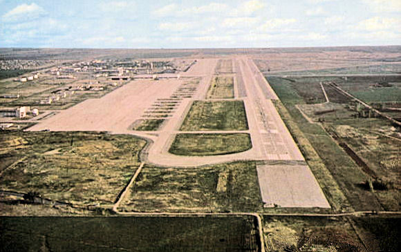 Postcard of main runway, Shilling AFB, Kansas